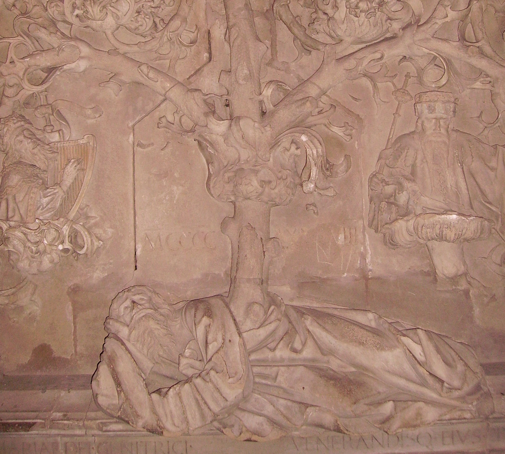 cathedral of Worms, Germany